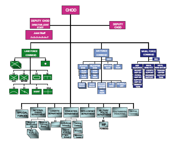 Georgian Armed Forces structure as of December 2007. Key: CHOD=Chief of Defence; AOC=Air Operations Center; SQDN=Squadron; UAV=Unmanned Aerial Vehicle; Recce=Reconnaissance; AD=Air Defence; MSC=Maritime Support Center; MP=Military Police